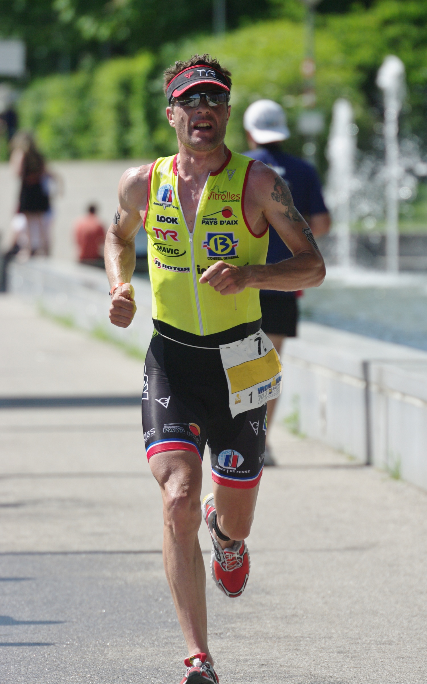 French triathlete François Chabaud in the Ironman 70.3 Austria on 20 May 2012 in St. Pölten.